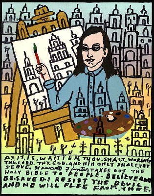 Portrait work by folk artist Howard Finster